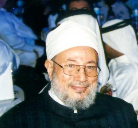 Yusuf Al Qardawi at the Third Annual Doha Educational Conference in Doha in February 2006